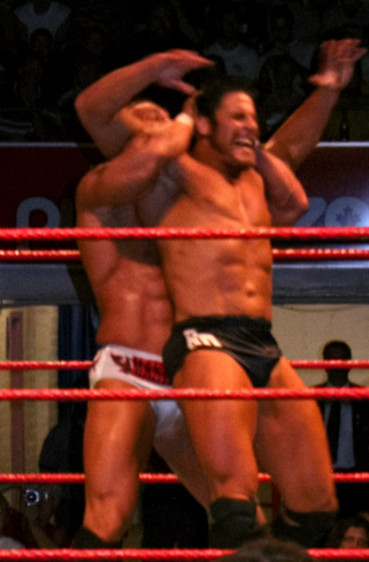 Chris Masters puts the Masterlock on Rene Dupree during a WWE house show held in Kitchener, Ontario, Canada on January 15, 2005.